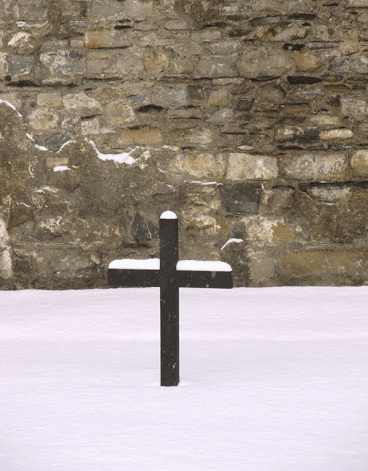 One of the spots at Kilmainham Gaol, Dublin, where the leaders of the 1916 Easter Rising were executed by the British.